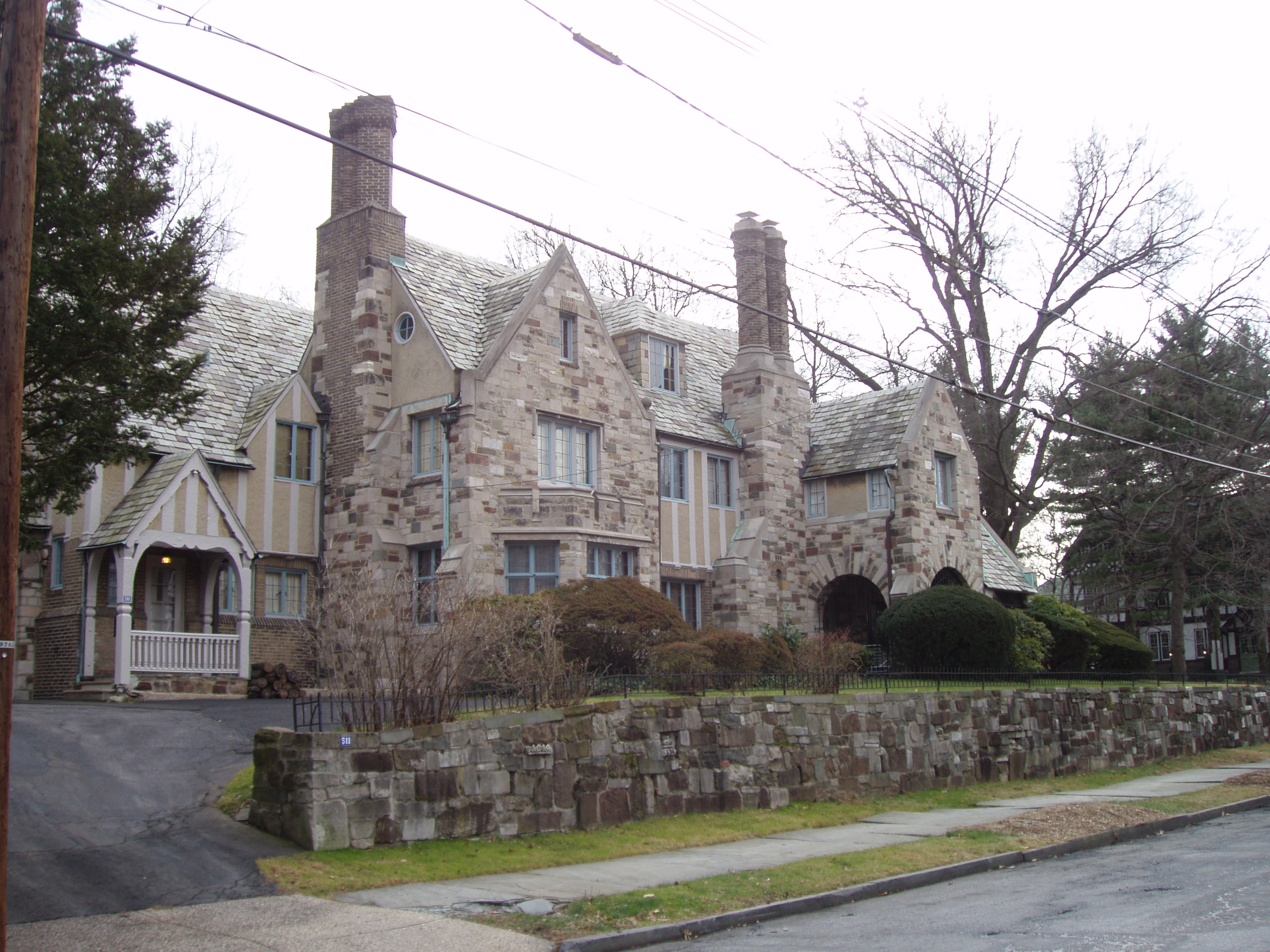 House in Forest Hill, Newark.